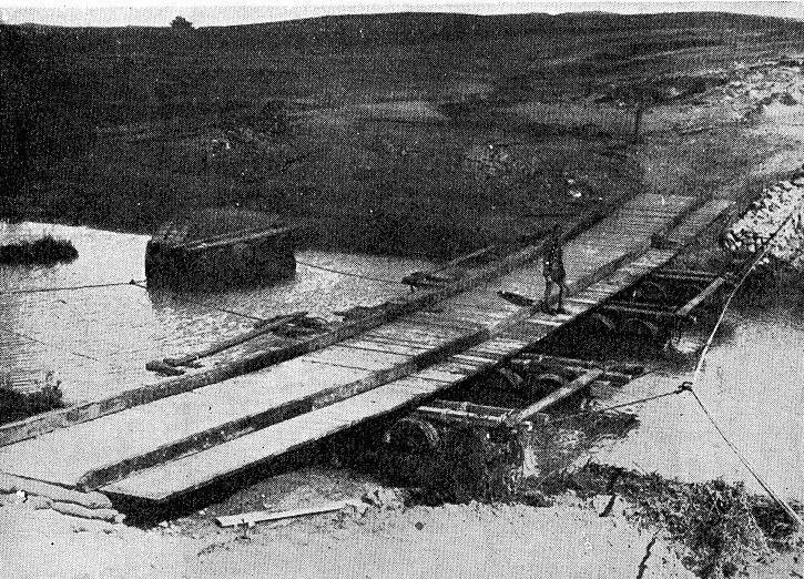 Bridge over Sukereir River around the time of the Battle of Mughar Ridge. The bridge was built from planks laid across empty wine casks.